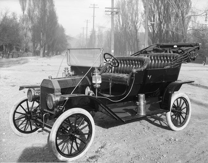 1910 Model T Ford, Salt Lake City, Utah. The photograph is for an advertisement, and taken by Harry Shipler of Shipler Commercial Photographers in 1910.